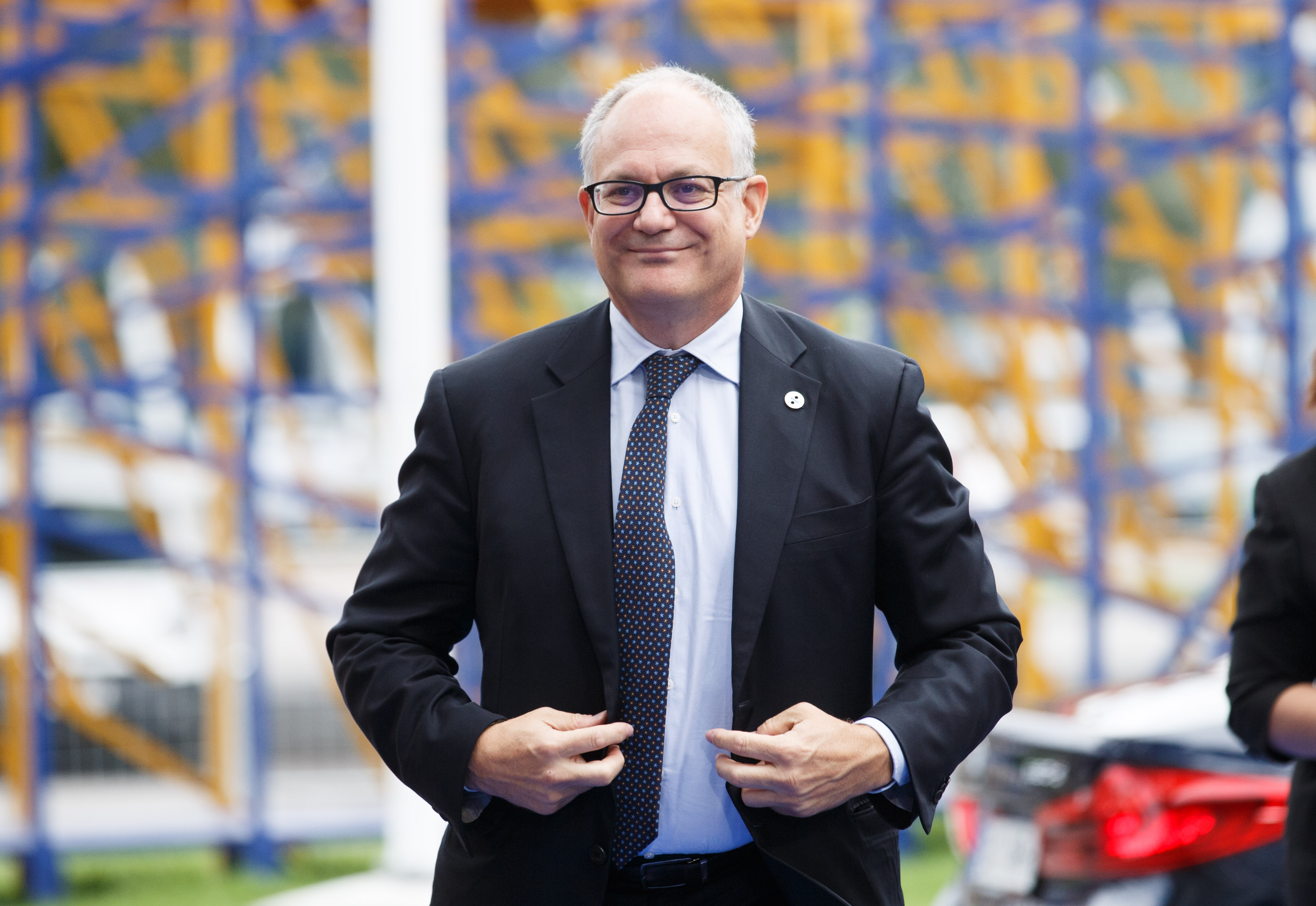 Informal meeting of economic and financial affairs ministers